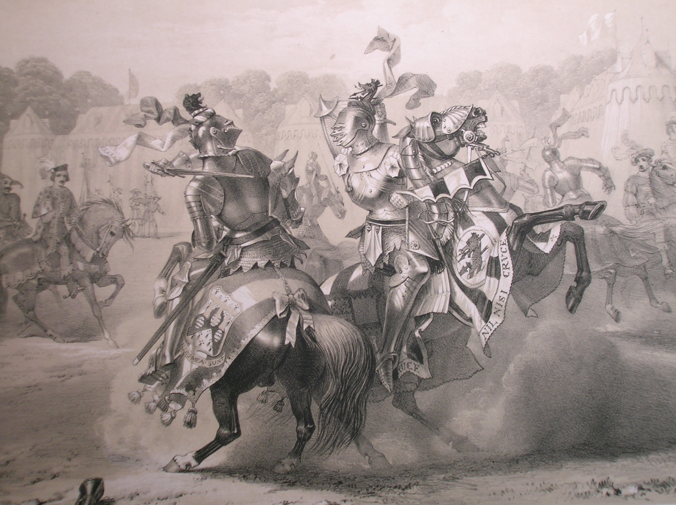 The joust between the Lord of the Tournament and the Knight of the Red Rose